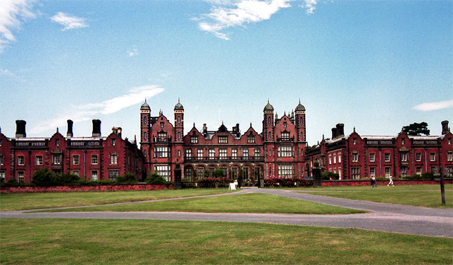 Photograph of the entrance front of Capesthorne Hall, Cheshire